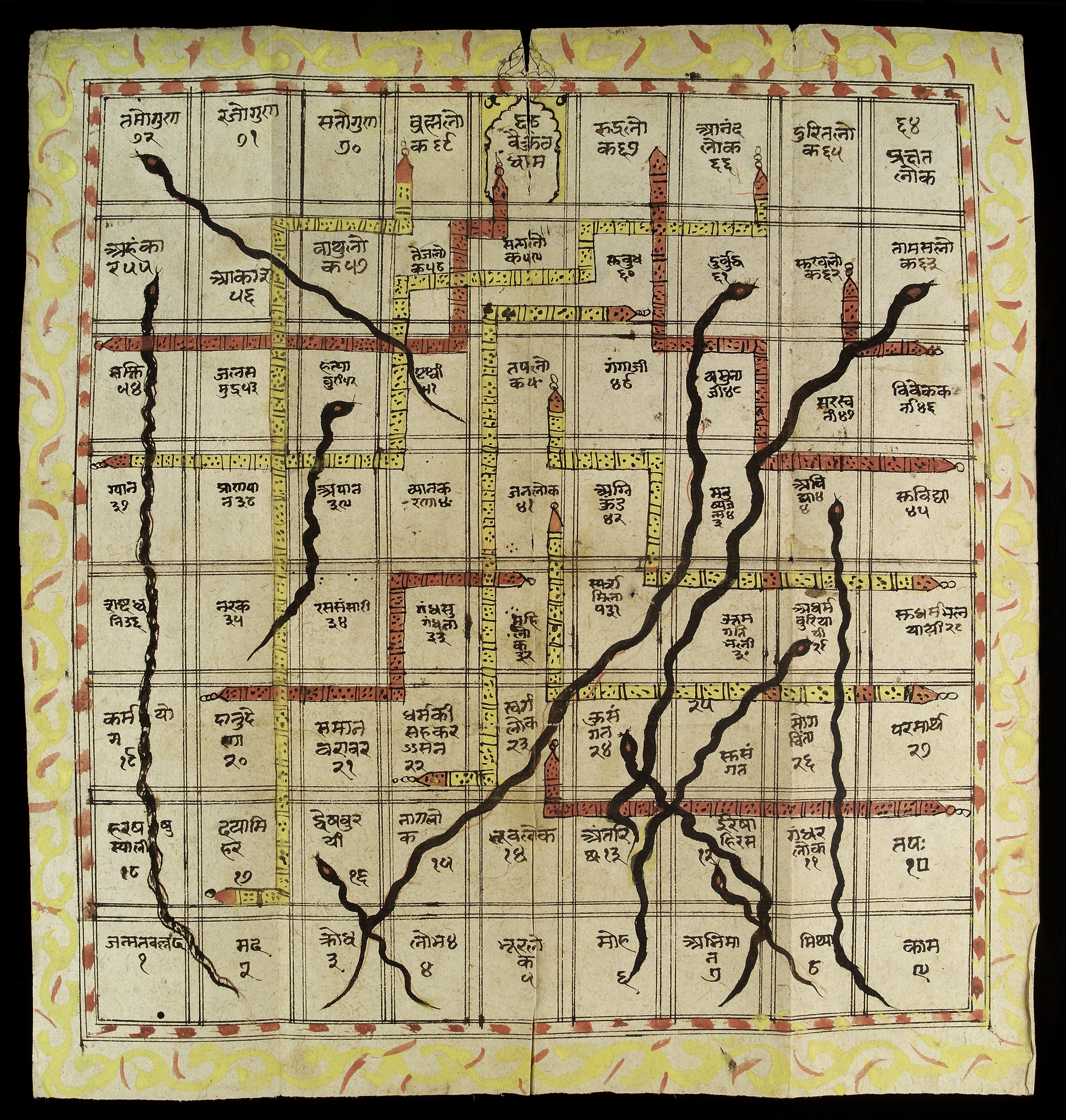 Game of Heaven and Hell (Jnana Bagi). This old Indian game, known to us as 'Snakes and Ladders', was originally a vehicle for teaching ethics. Each square has not only a number but a legend which comprises the names of various virtues and vices. The longest ladder reaches from square 17 'Compassionate Love' to 69 'The World of the Absolute' Asian Collection Keywords: Jainism; Game; India; Hindi